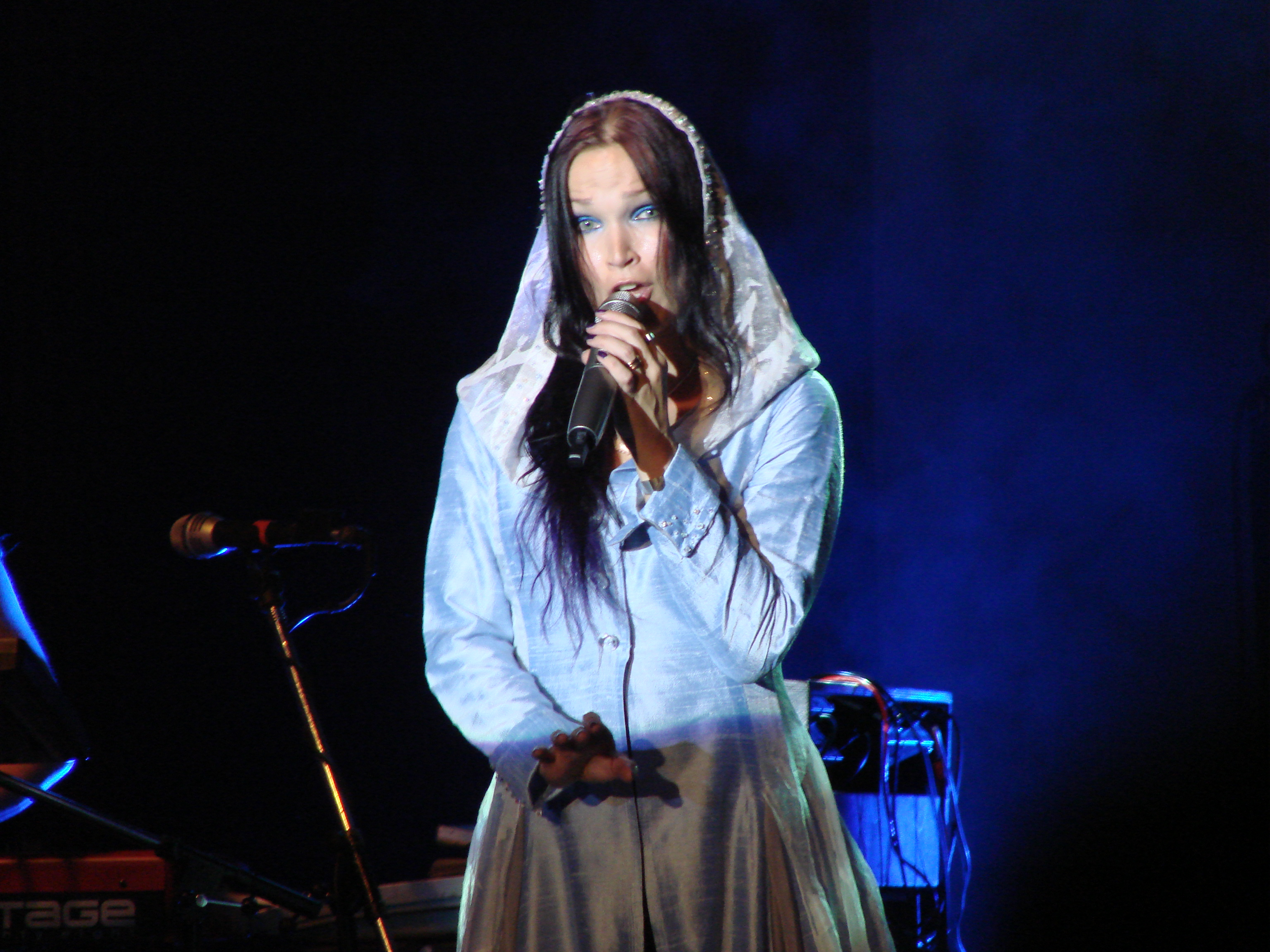 Tarja Turunen at La Trastienda, Buenos Aires, Argentina on May 26, 2009. This show was the third in Buenos Aires in her Storm Returns to the America’s tour.